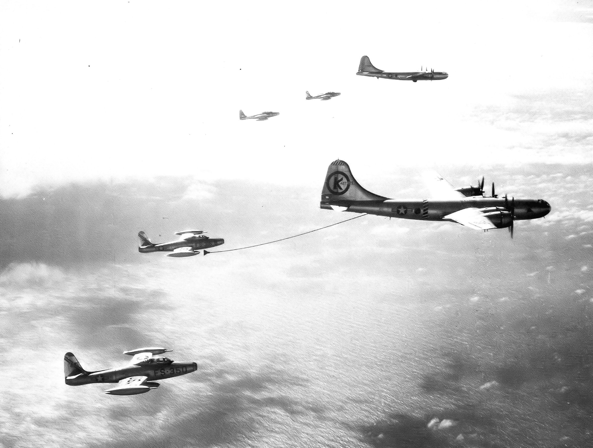 43d Air Refueling Squadron KB-29M Superfortresses, equipped with the probe-drogue refuelling system, refueling 48h Fighter Wing F-84s over the Philippines, 1953